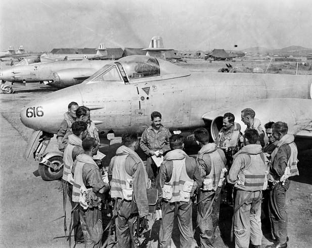 Pilots of 77 Squadron RAAF, being briefed by their Commanding Officer, Squadron Leader Richard (Dick) Cresswell (centre, facing camera), on the Kimpo airfield tarmac in front Meteor aircraft A77-616, prior to a mission over North Korea. Around the semicircle, left to right: Flight Lieutenant (Flt Lt) Colin Ian 'Joe' Hill , RAF; Flt Lt Maxwell (Max) Scannell, RAF; Sergeant Ronald Daniel Mitchell; Sergeant (Sgt) Keith Raymond Meggs; Sgt Cecil (Cec) Sly; Warrant Officer (WO) William Stapylton (Bill) Michelson; Flying Officer Leslie (Les) Reading; Sgt Henry William 'Dick' Bessell; Flt Lt Ralph Leslie 'Smokey' Dawson; WO Wiliam (Bill) Middlemiss; Sgt Maxwell Edwin 'Blue' Colebrook; and Flt Lt Cornelious Desmond (Des) Murphy (last in semicircle on right). Sgt Mitchell was killed in action on 22 August 1951. Sgt Colebrook was later killed in action on 13 April 1952.